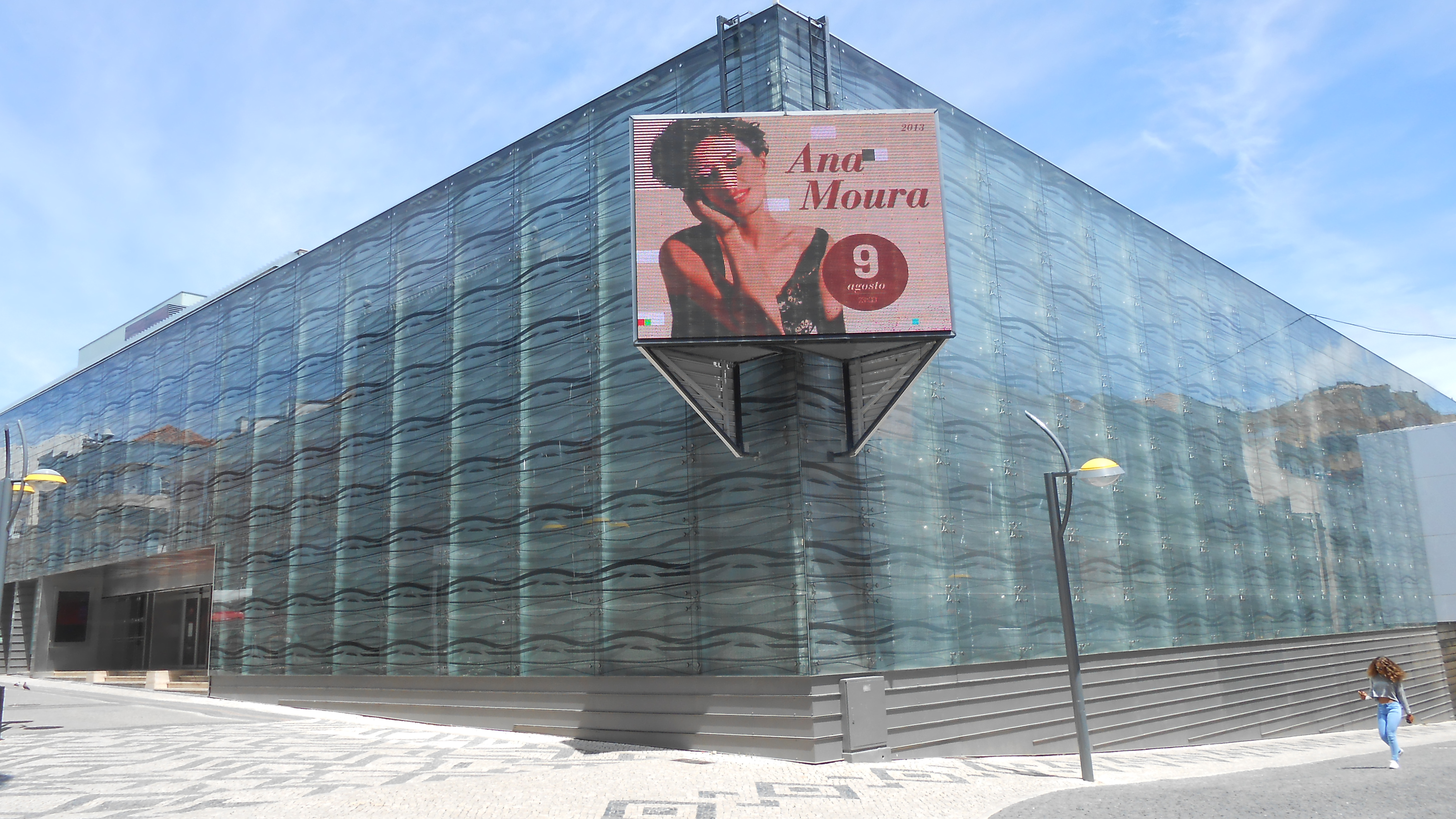 The casino in Figueira da Foz, Portugal, anouncing an evening with the fadosinger Ana Moura on august 9, 2013